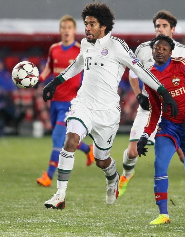 Dante playing for FC Bayern Munich in a UEFA Champions League game against PFC CSKA Moscow in Moscow in November 2013.